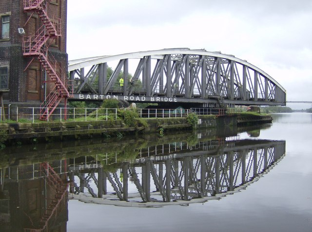 Barton road bridge